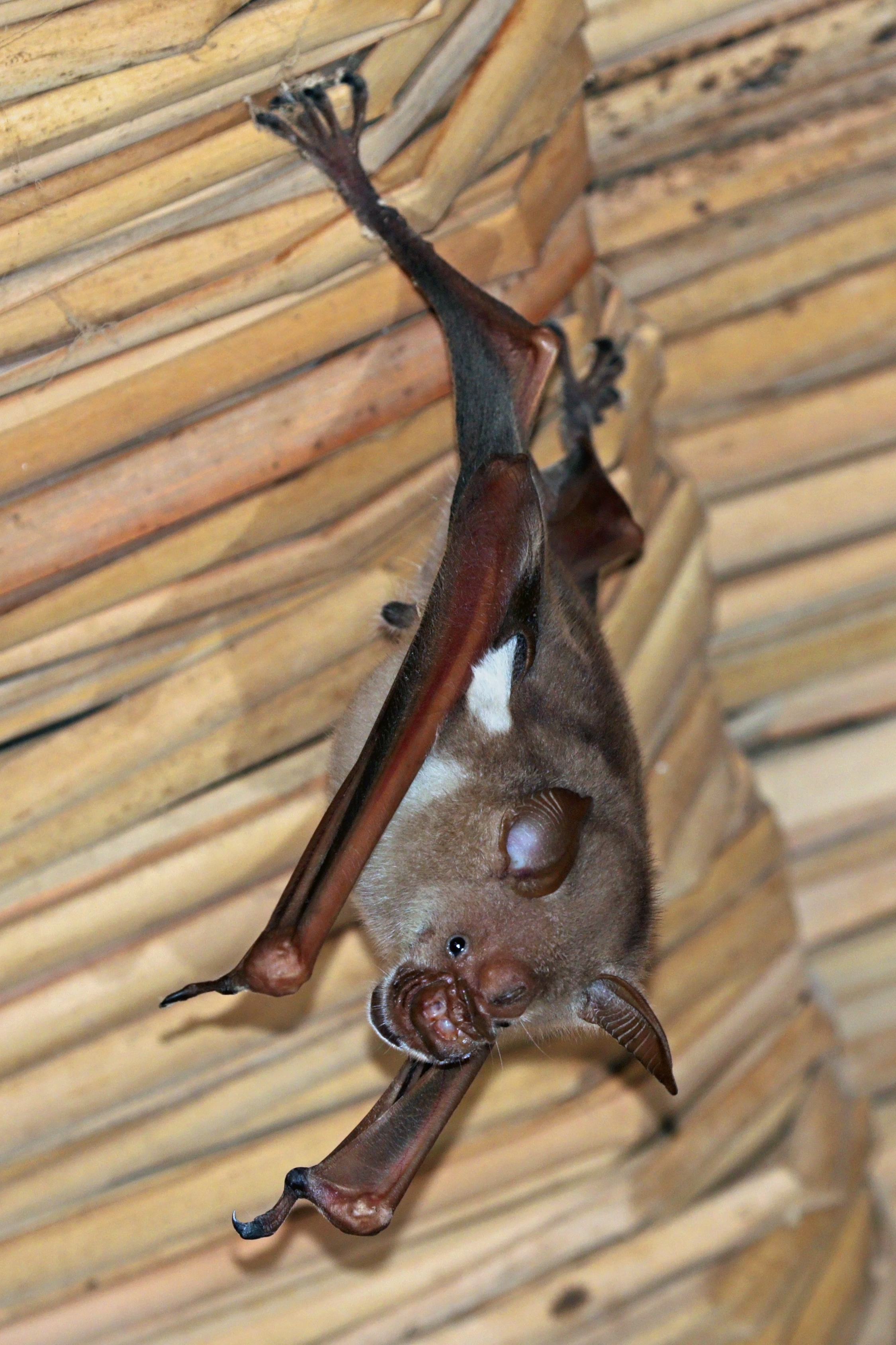 Commerson's leaf-nosed bat (Hipposideros commersoni), Arboretum d'Antsokay, Madagascar